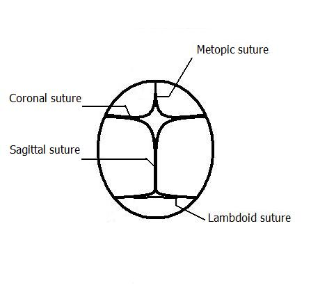 The sutures in a child